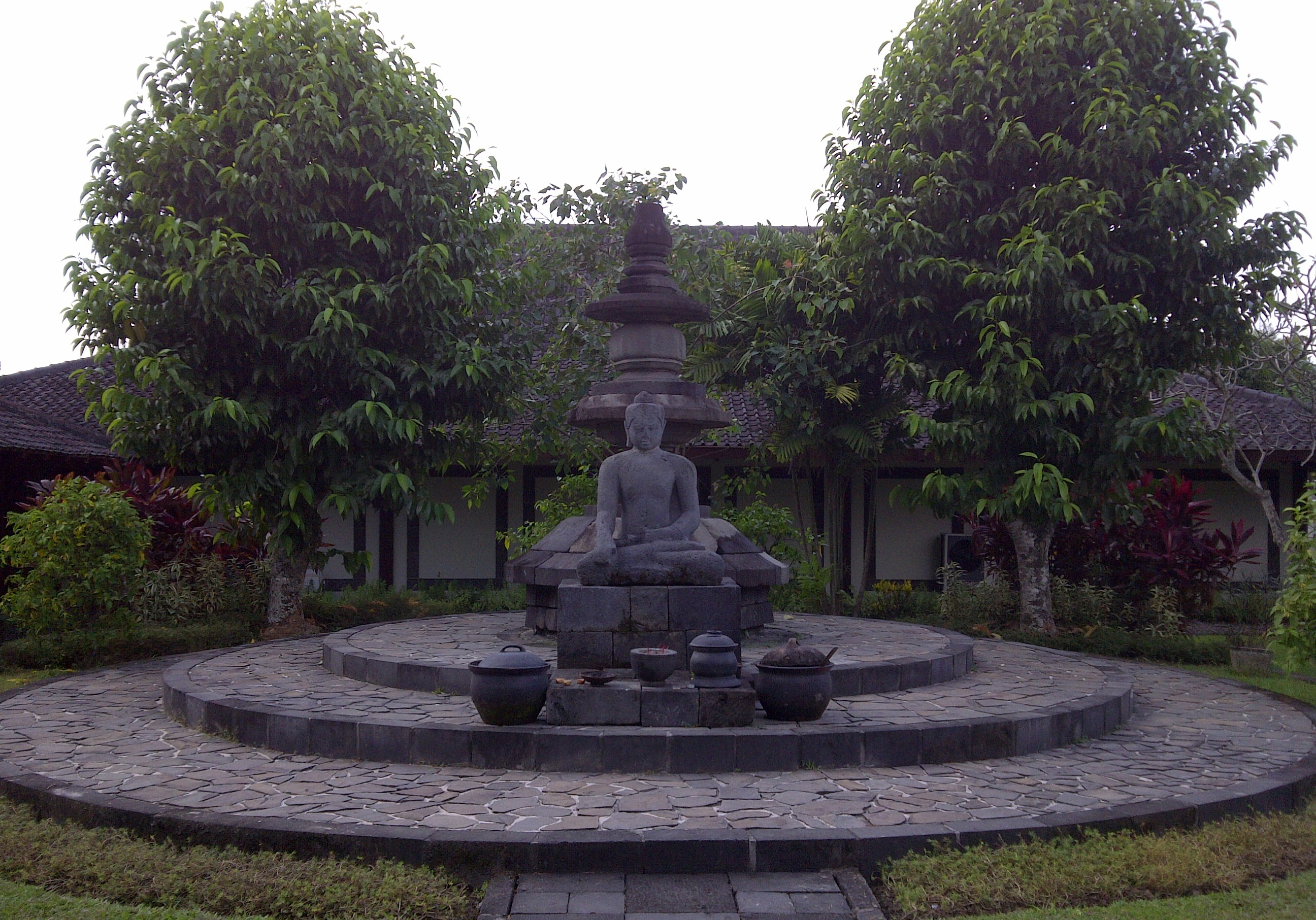 The Unfinished Buddha of the main stupa of Borobudur at Karmawibhangga Museum. People gives the offerings on its front. On its back is the half top of main stupa's stone parasol which was brought down and was replaced with lightning rod